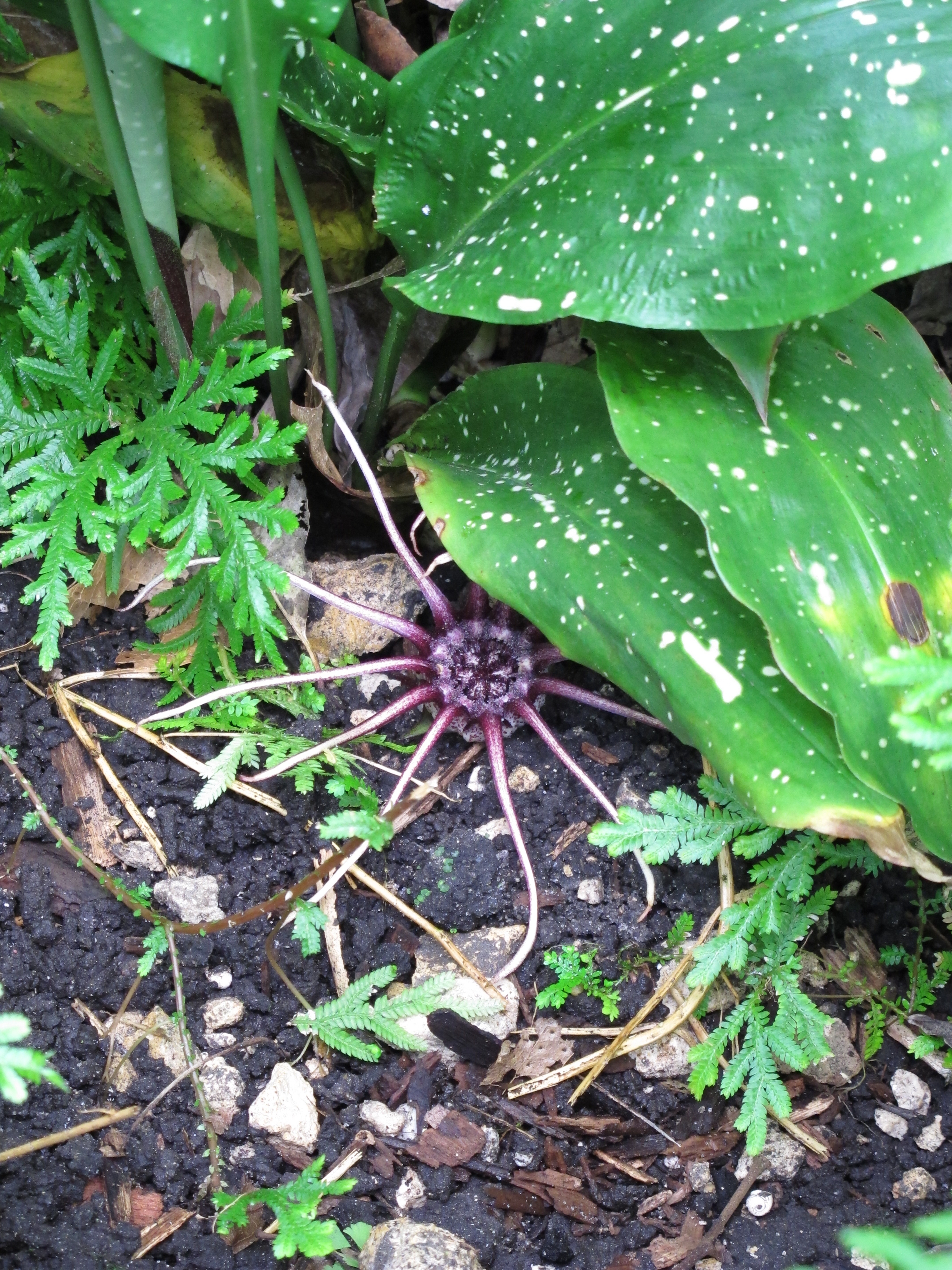 Aspidistra grandiflora, cultivated, Wertheim Conservatory, Florida International University, Miami, Florida, USA. I am sooo excited to see this! I acquired this plant 2 yrs. ago as "Mary Sizemore's Aspidistra sp. from Vietnam." I've checked it periodically for flowers and have always been disappointed. But not today. I pulled the Selaginella away and almost jumped back (I am a bit arachnophobic). With the flower available, I was able to identify this as A. grandiflora, a species described by H.-J. Tillich in 2007. I couldn't detect any odor from the flower.